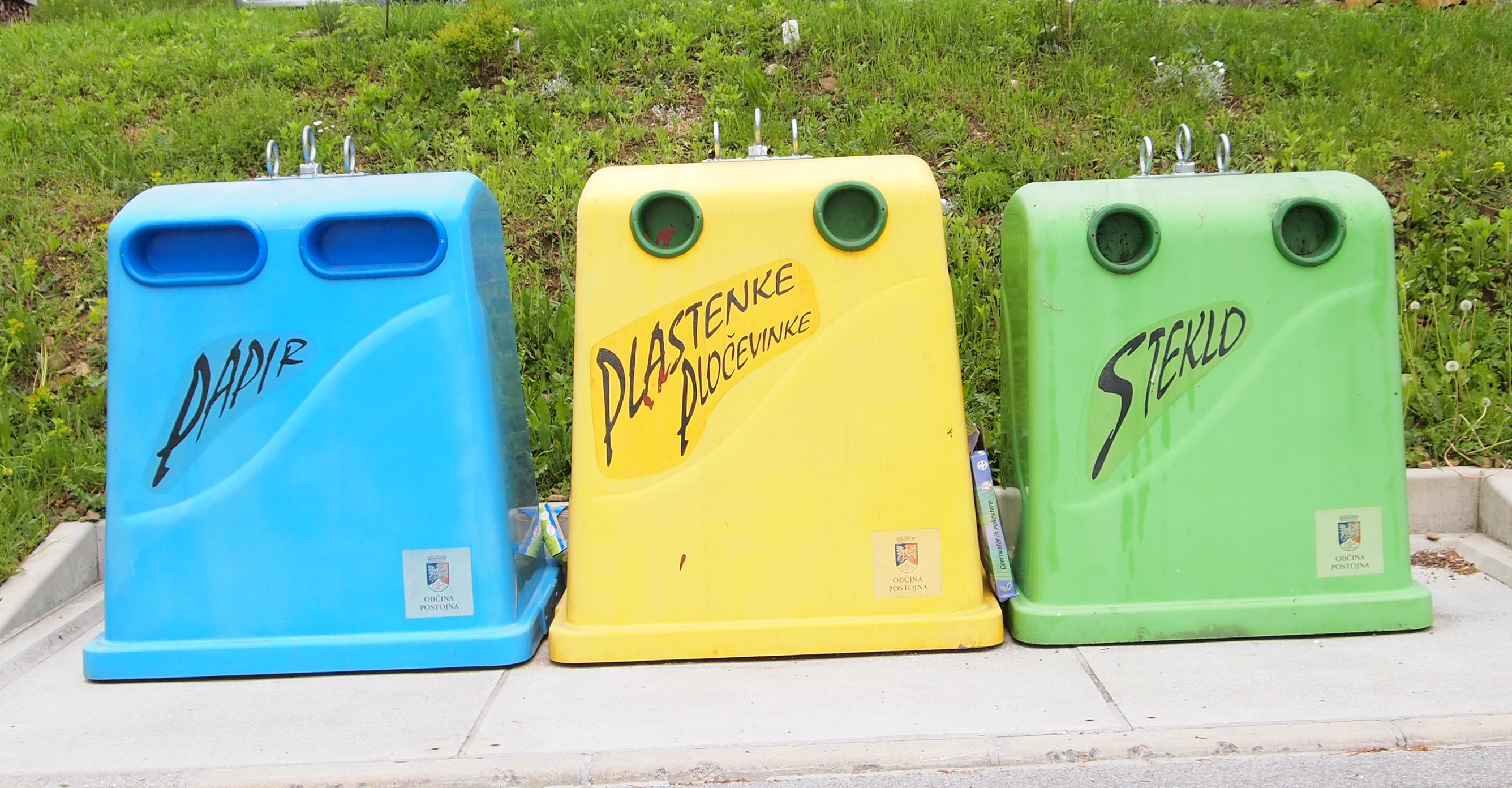 Trash bins in Postojna.